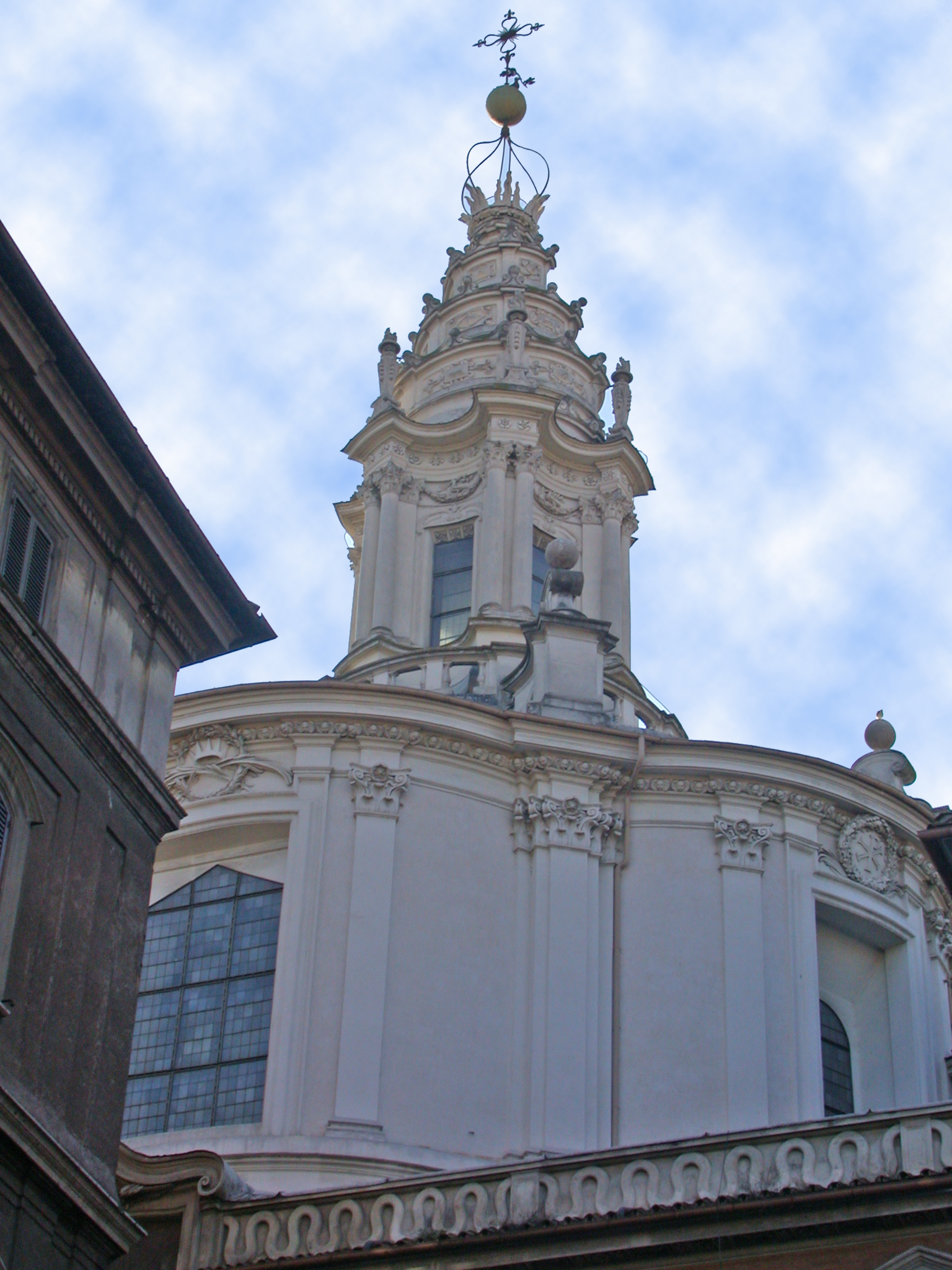 Rome, church of Sant'Ivo alla Sapienza, by Francesco Borromini, view of upper part from Sant'Eustachio. Personal photo (november 2005) by MM in it.wiki.